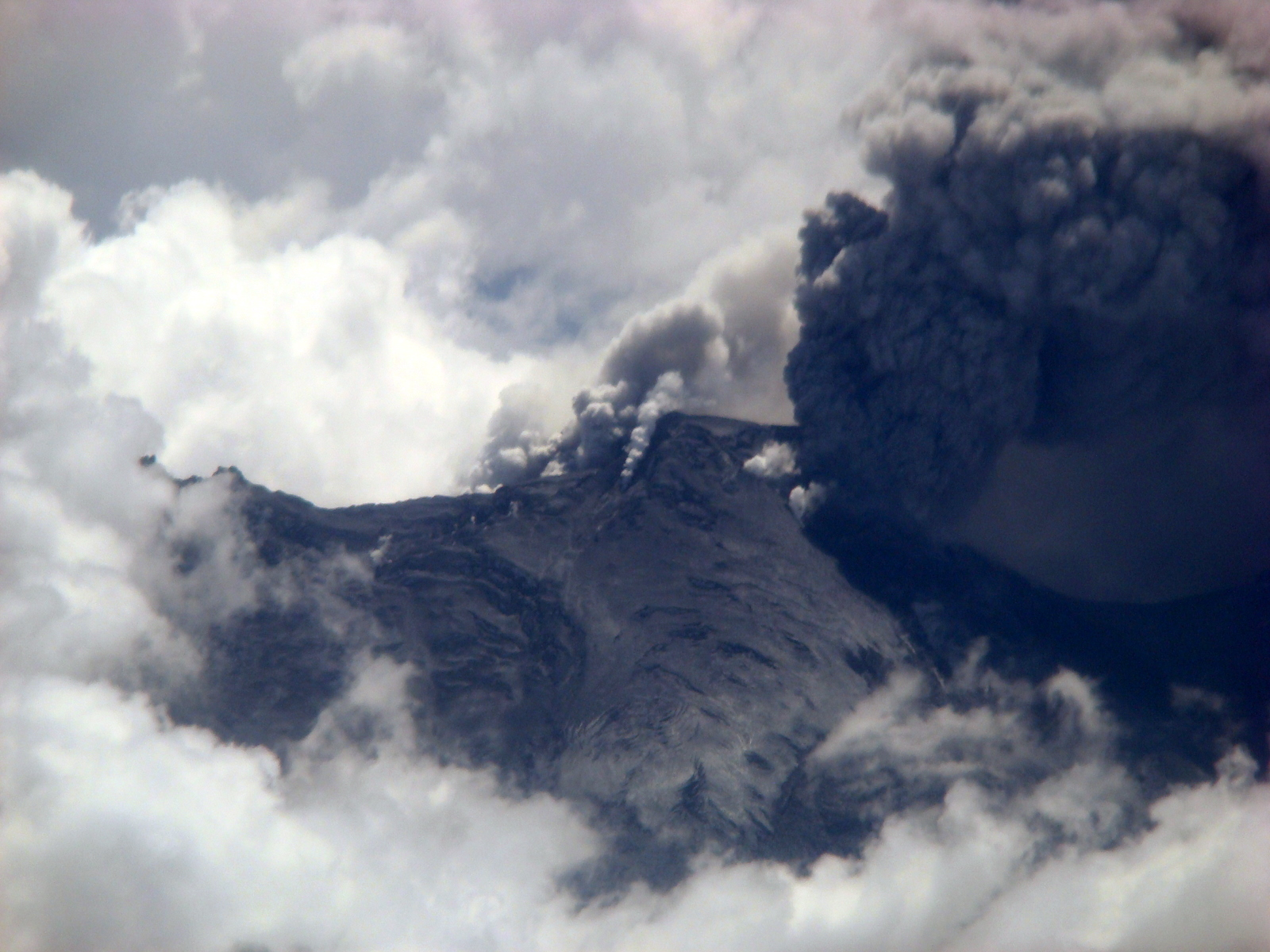 The glacier is completely covered by black ashes.